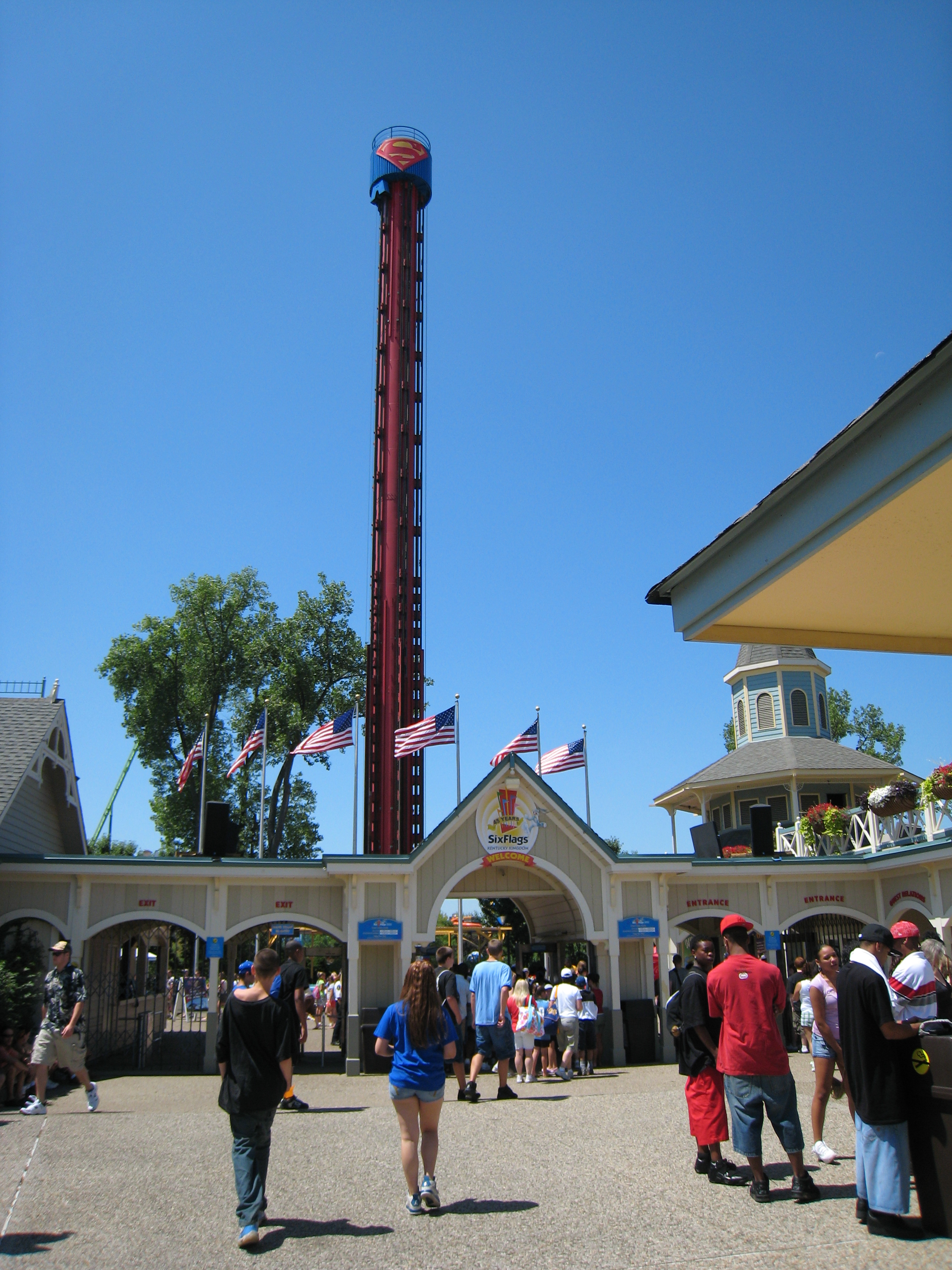 Superman Tower of Power, 12 days before the 21 June 2007 incident